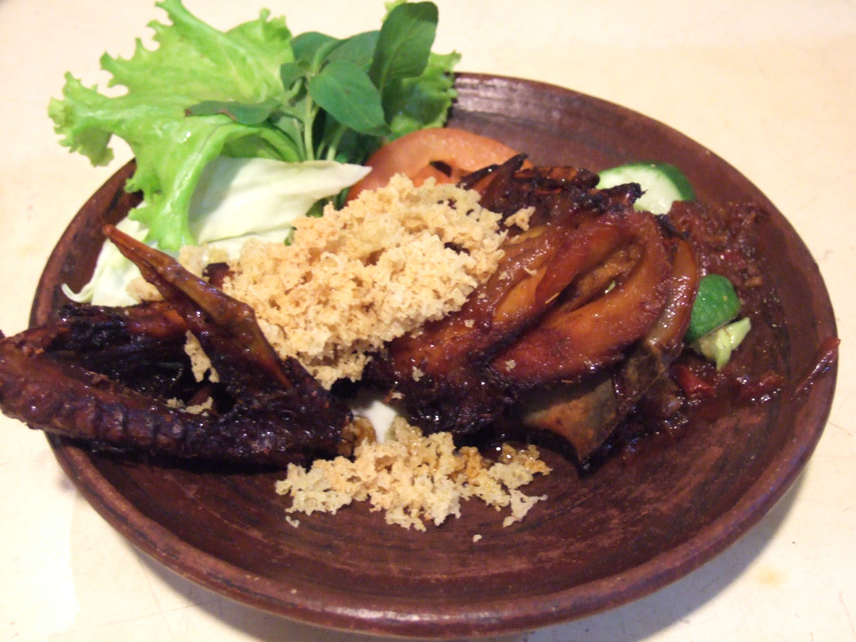 Kalasan style fried chicken